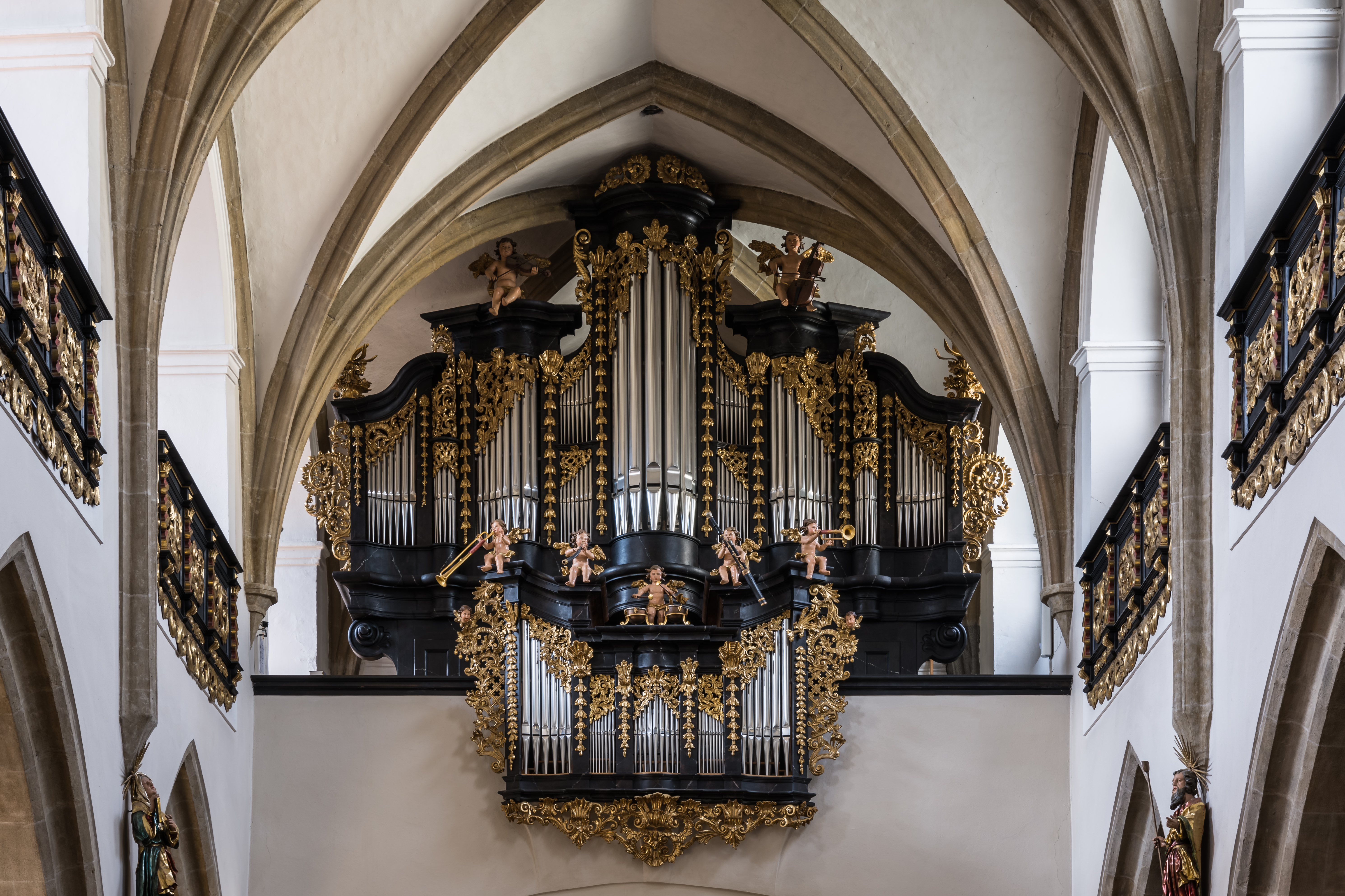 Pipe organ at the parish church Freistadt, Upper Austria. Orgelbau Metzler, II/27, built in 2005. Baroque case of the organ by Leopold Freundt, 1705.